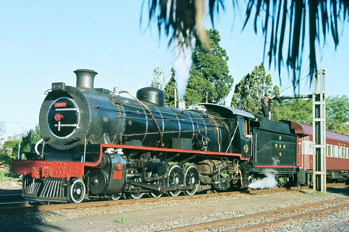 No. 2004, a class 14CRB steam locomotive of the South African Railways (SAR) named 'PURDEY' taking water at Robertson station. Railway line Voorbaai-Worcester, South Africa.